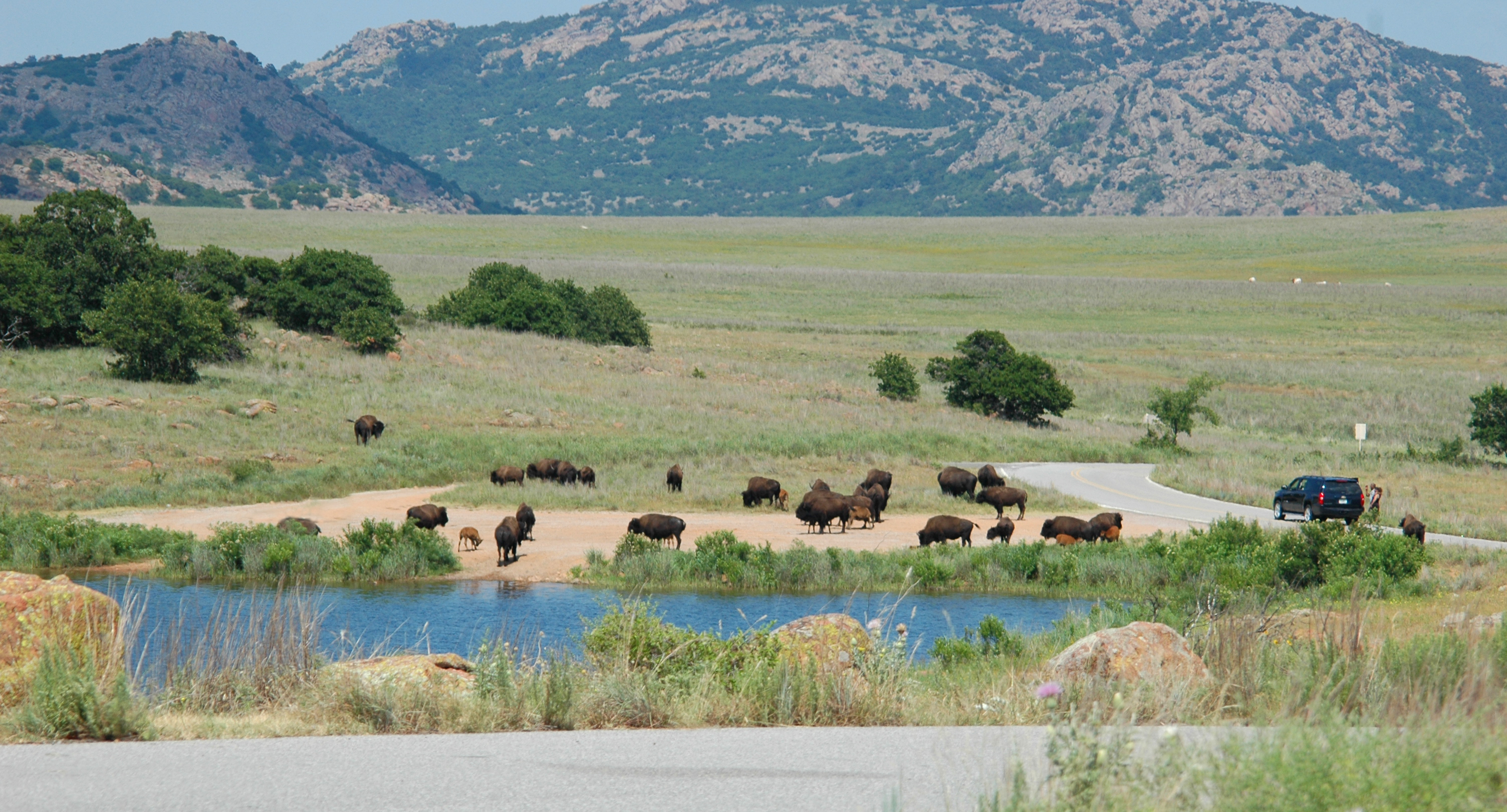 This is a small herd of about three dozen including several calves. On the right a tourist has gotten out of his vehicle to approach the herd. Stupid.